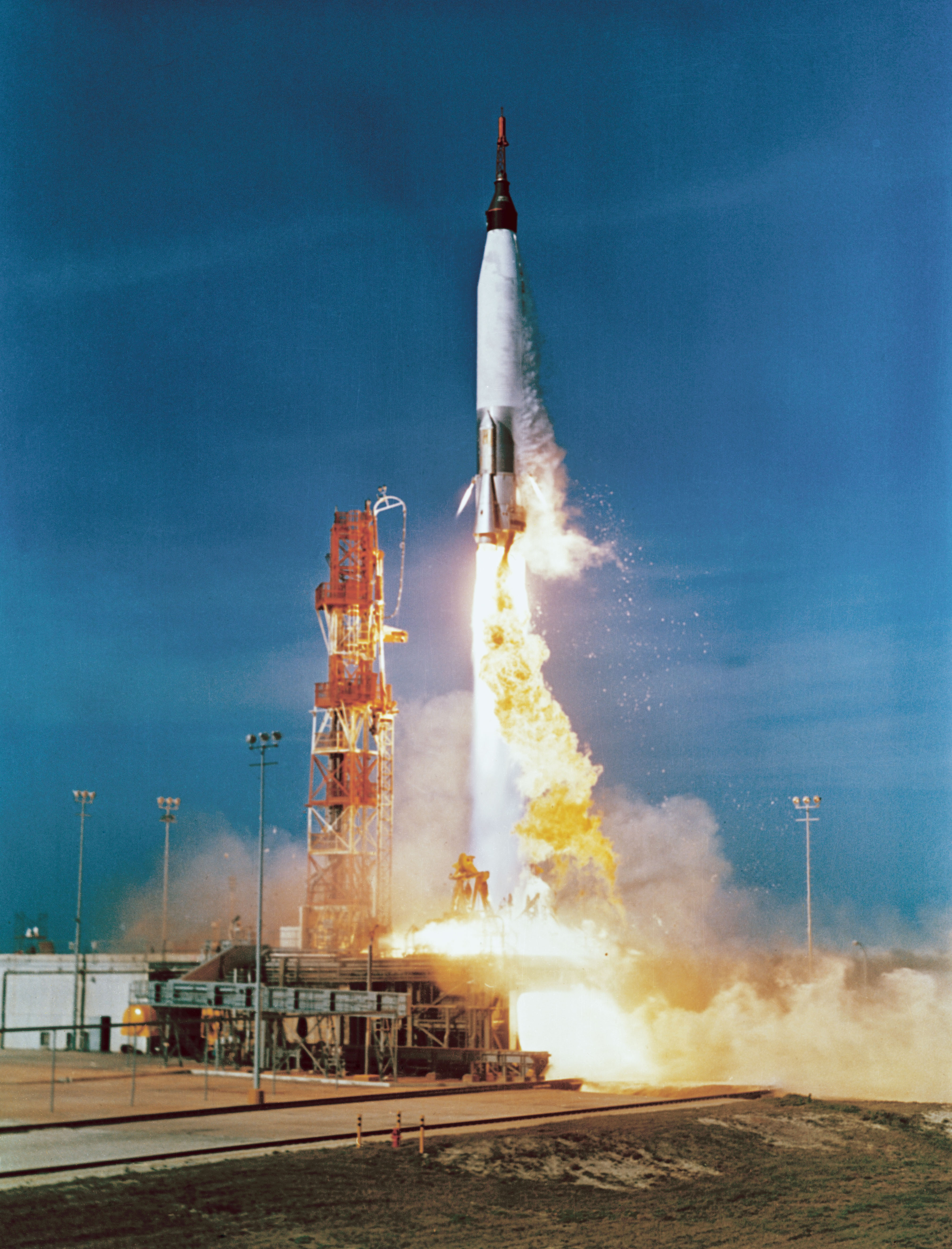 Launch of the unmanned Mercury-Atlas 2 (MA-2) vehicle for a suborbital test flight of the Mercury capsule. The upper part of Atlas is strengthened by an eight-inch wide stainless steel band. The capsule was recovered less than one hour after launch. The altitude was 108 miles. Speed was 13,000 mph. Recovered 1,425 miles downrange.